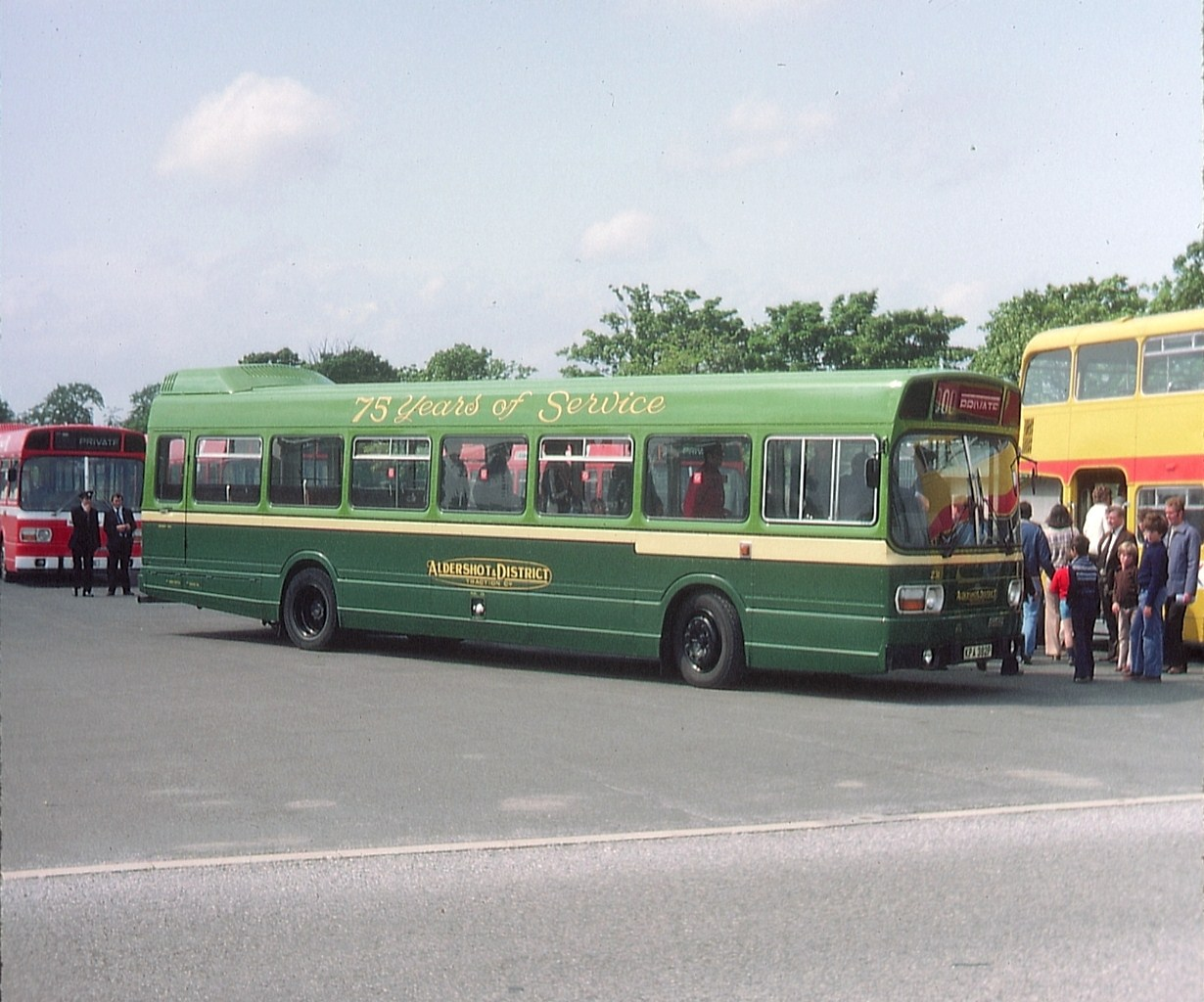 Alder Valley (National Bus Company) bus 231 (reg. KPA 382P), a 1975 Leyland National single-decker, pictured in Aldershot, Hampshire, in 1981. It wears a commemorative livery in the colours of its predecessor Aldershot & District Traction. The livery also proclaims '75 years of service', although this refers to the 1906 founding of the Aldershot & Farnborough Motor Omnibus Company, which did not become Aldershot & District Traction until 1912.